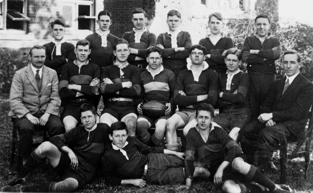 Toowoomba Grammar School Rugby Union Team, 1927. Standing - Aland, Gibson, Yeates, Krimmer, Thynne, Bardon. Sitting - Mr Hatherell, McAdam, Ferris, Horn (Captain), Hayes, Mr Broadfoot. Front - Wood, Woods, Knauth. (Description supplied with photograph.).